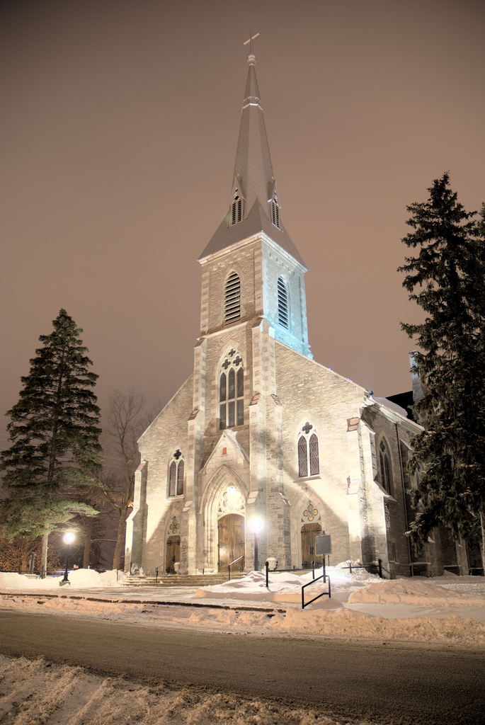 St. Peter-In-Chains Catholic Cathedral, in Peterborough (Ontario)